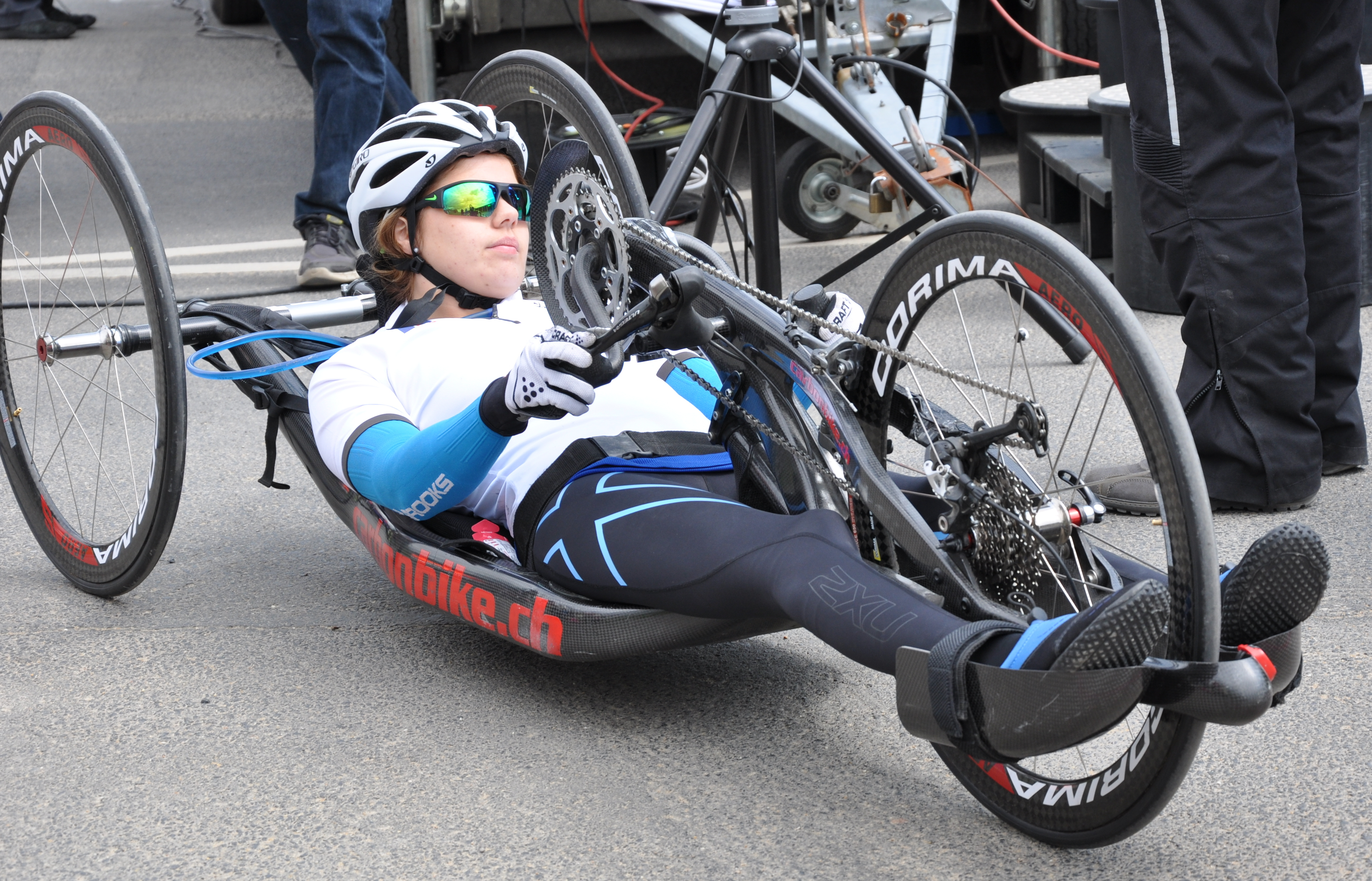 Arna Sigríður Albertsdóttir, para-cyclist from Iceland